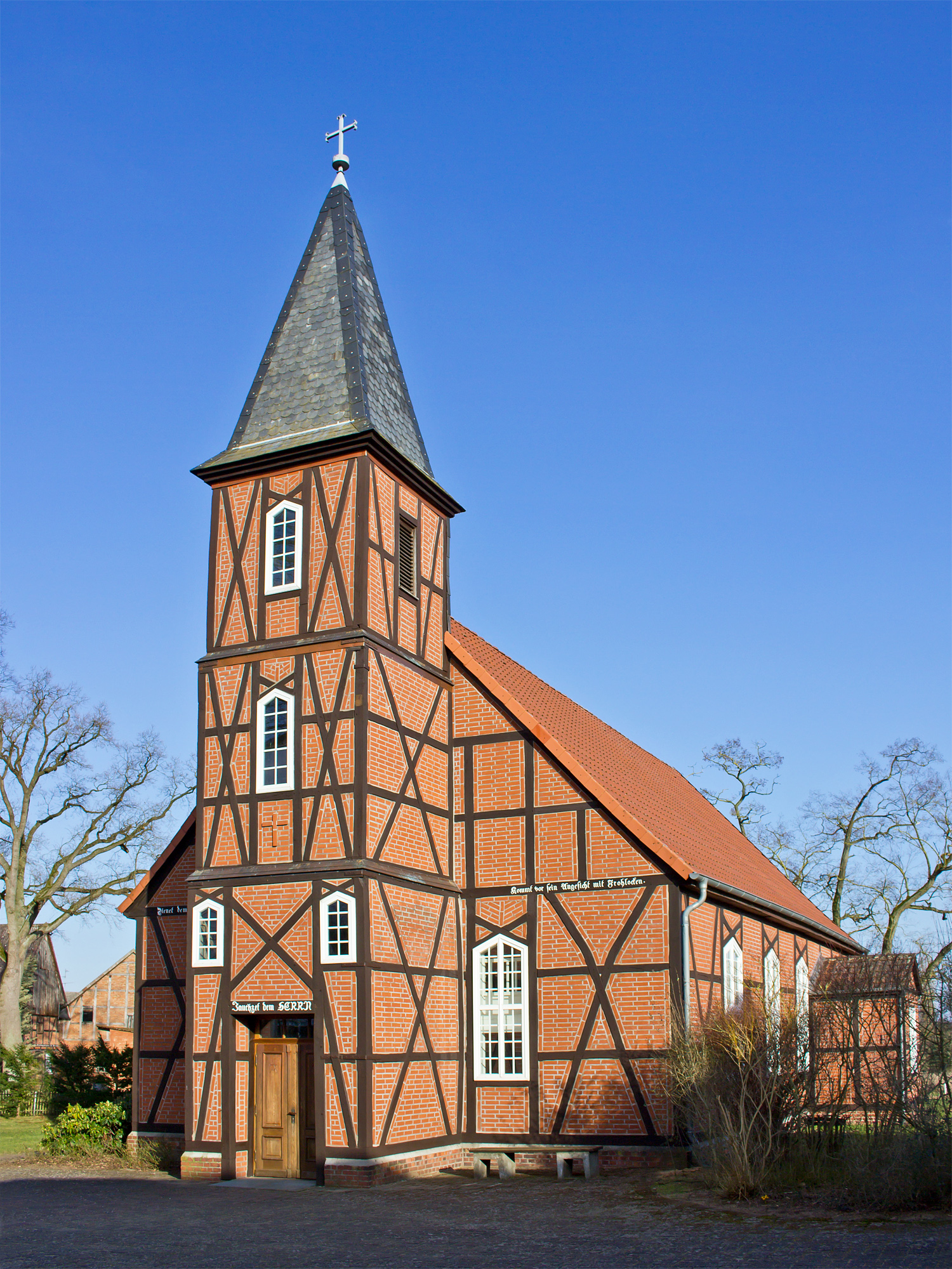 Church in the small village Gistenbeck (district Lüchow-Dannenberg, north-eastern Lower Saxony, Germany).